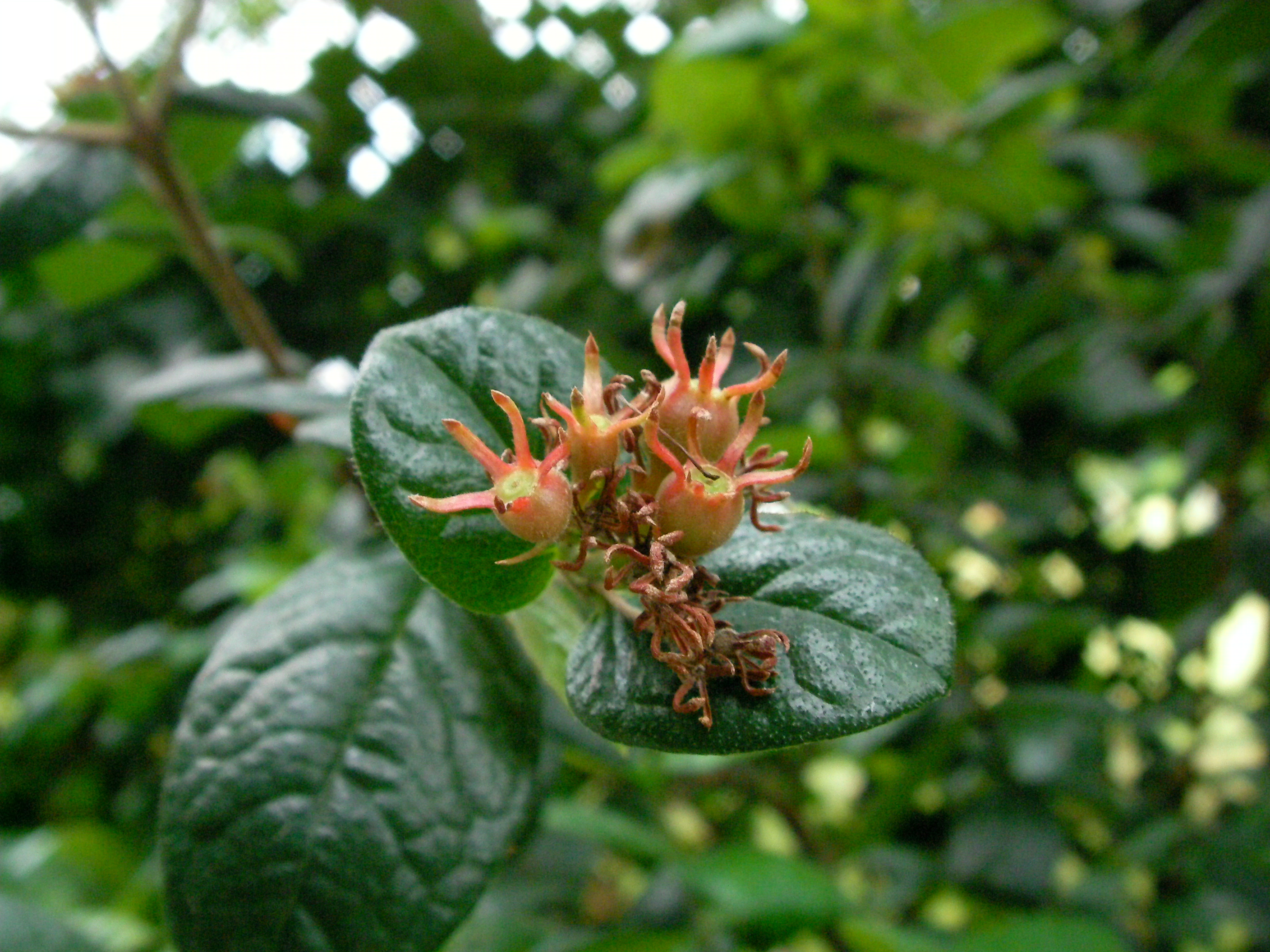 Fruits of Rondeletia odorata taken in Hong Kong Zoological and Botanical Gardens